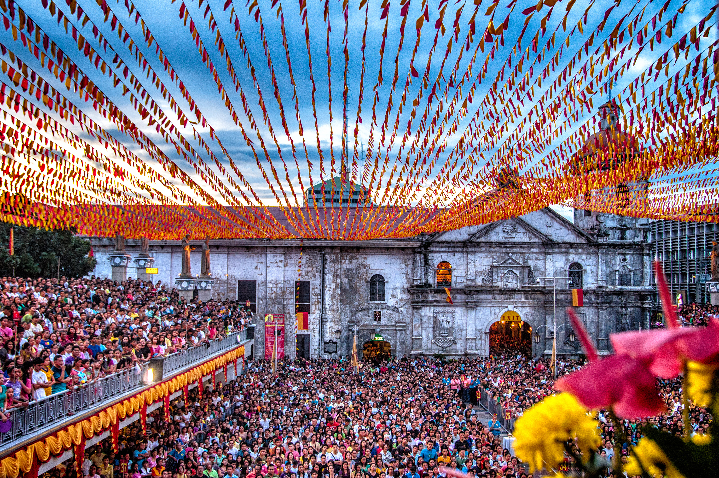 The faithful hear mass at the Pilgrim's Center of the Sto. Nino Basilica during the annual Sinulog festival in honor of the Child Jesus, the Patron Saint of Cebu.